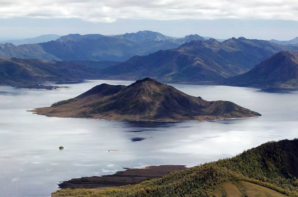 Scotts Peak in Lake Pedder, seen from Mt Eliza, Southwest National Park, Tasmanian Wilderness World Heritage Area, Tasmania, Australia.